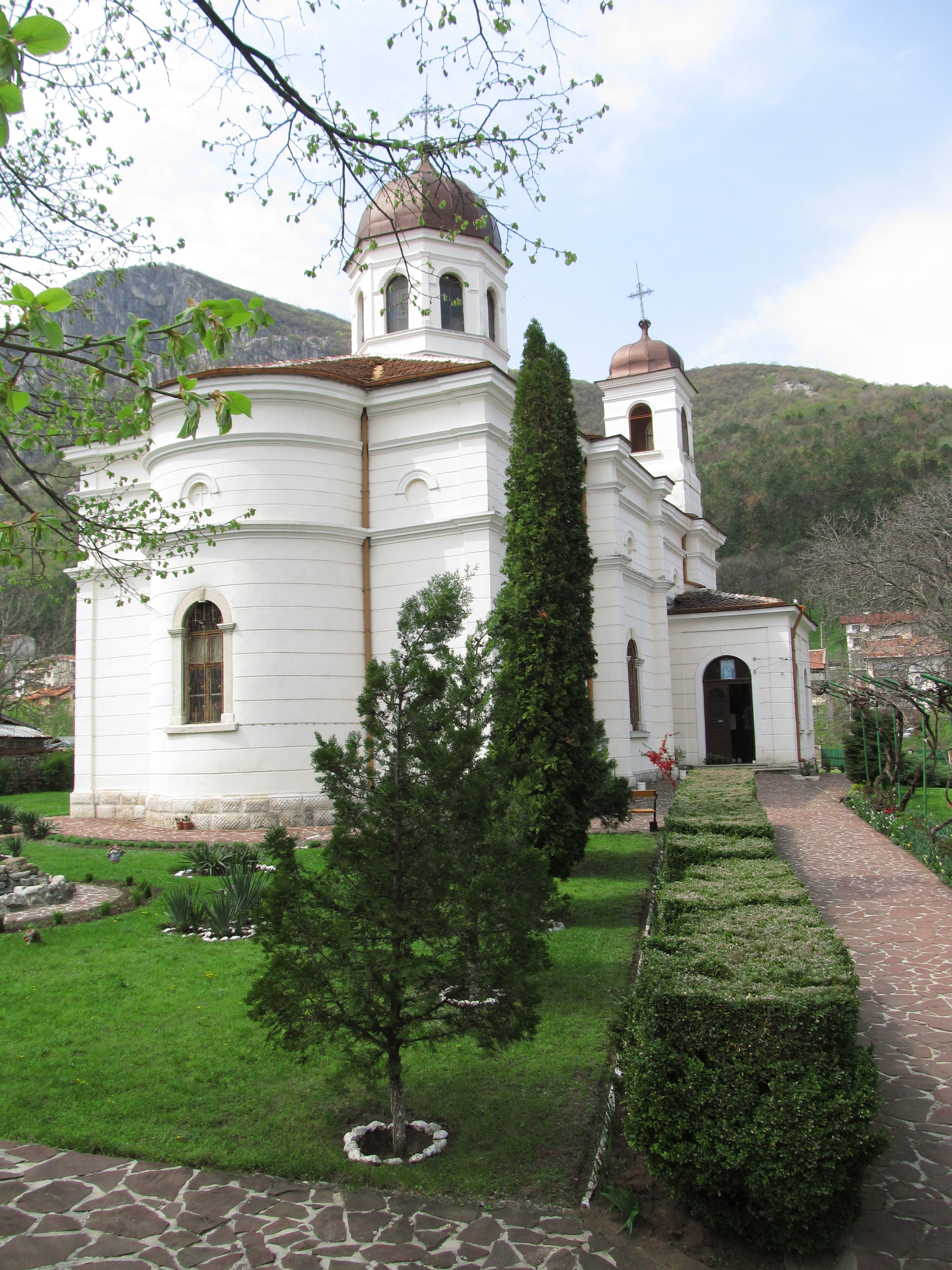 Храм "Св.Св. Константин и Елена " ( Св. Царей ) - Враца 2